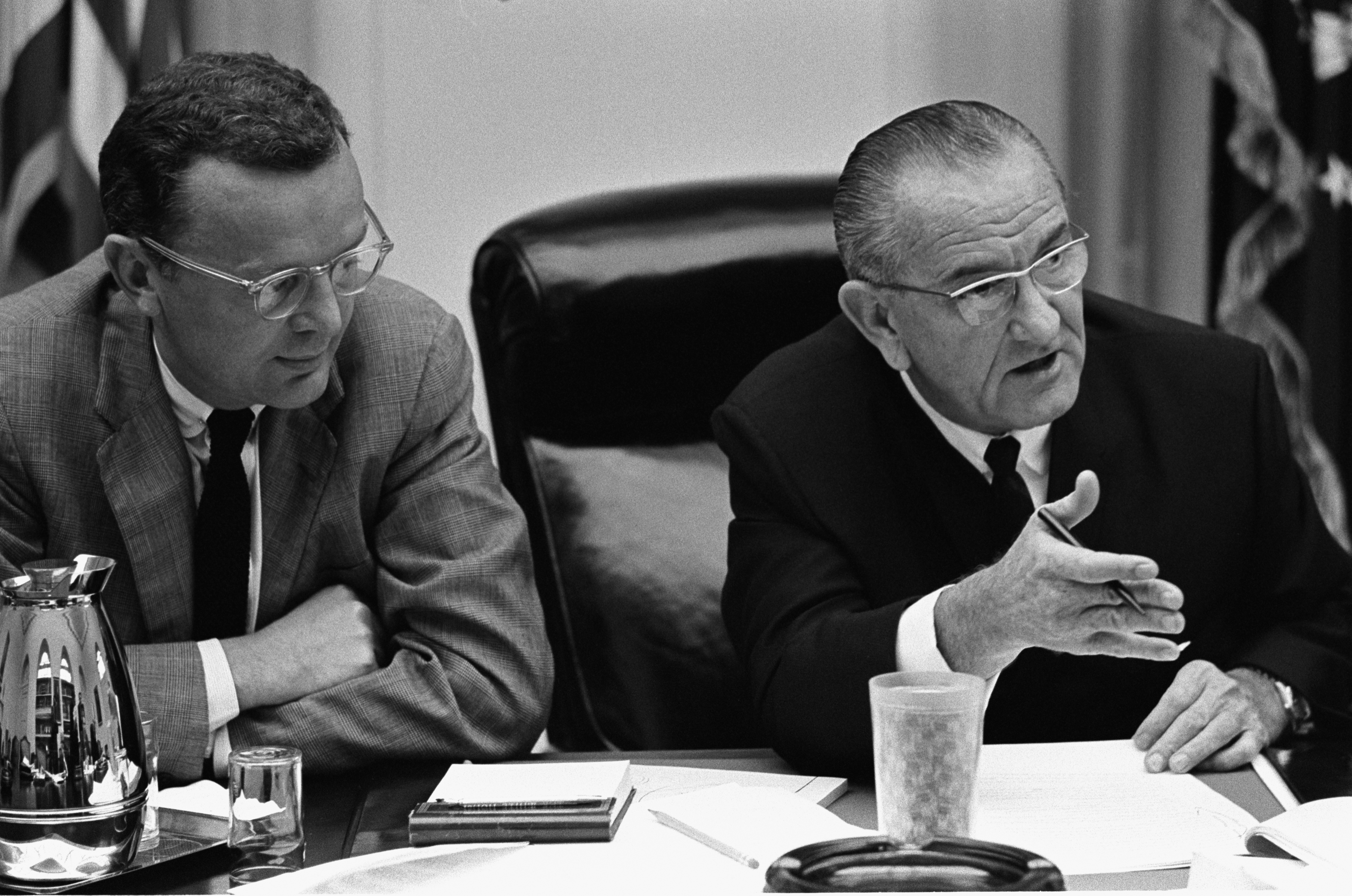 Harry C. McPherson, Jr., and President Lyndon Baines Johnson